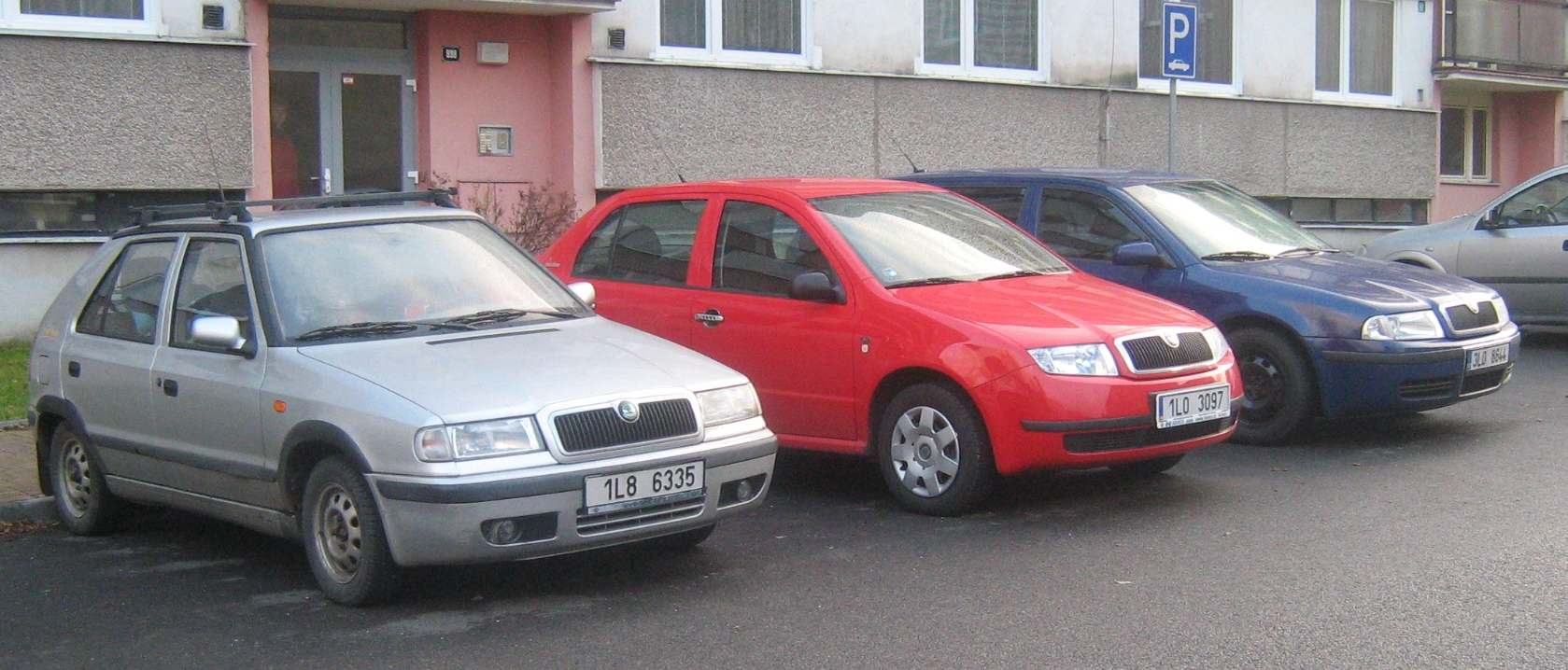 Typical models of standard Škoda cars on the millenium - Felicia, Fabia, Octavia